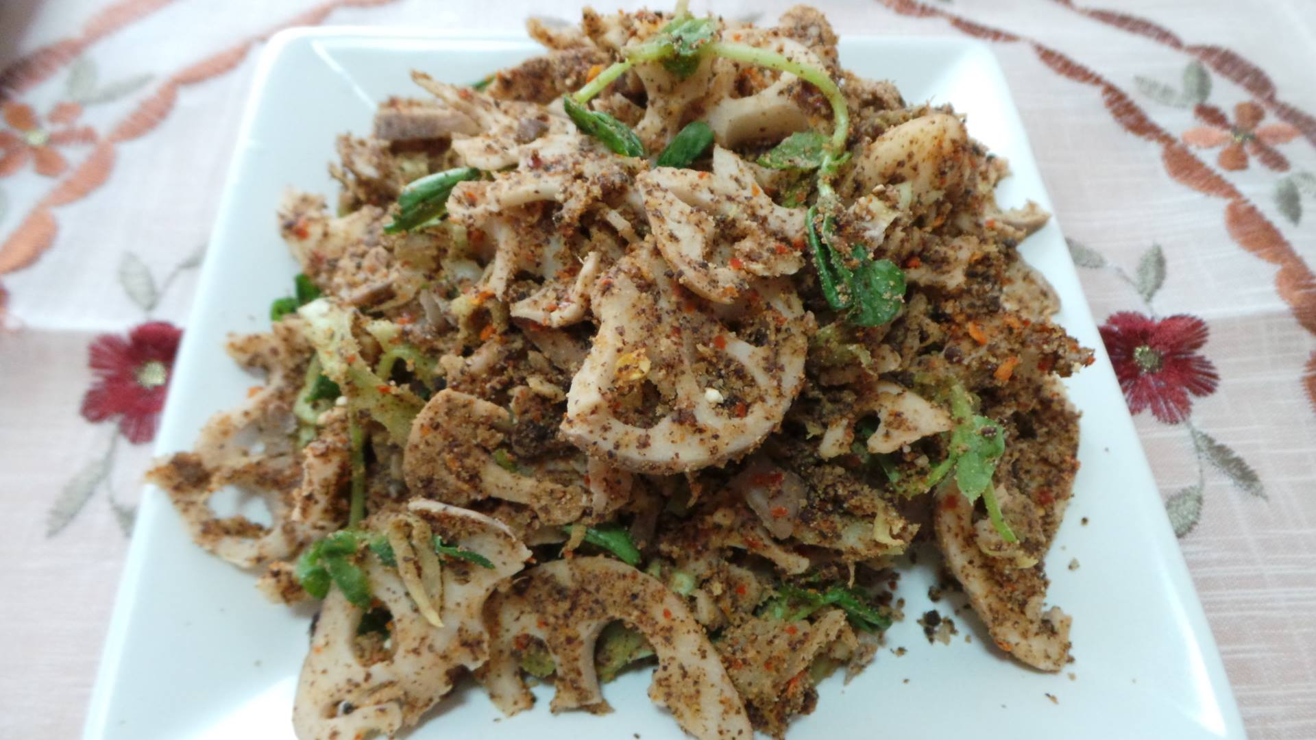 singju made by lotus roots